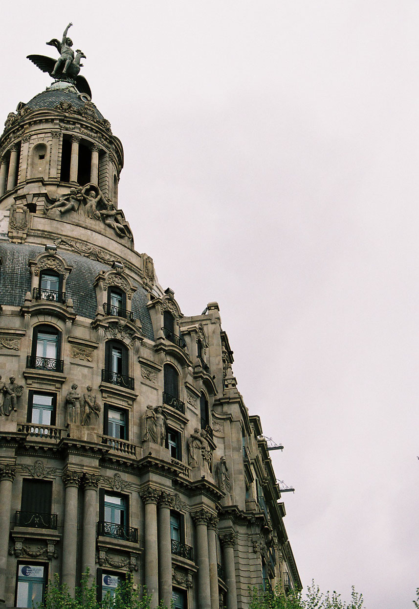 In 2006 this was the Consulate General of Brazil in Barcelona (Passeig de Gràcia, 21). It was later moved to Av Diagonal.